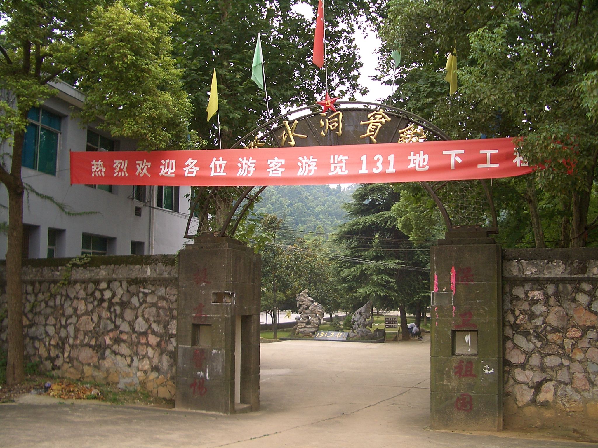 Project 131: The site gate.